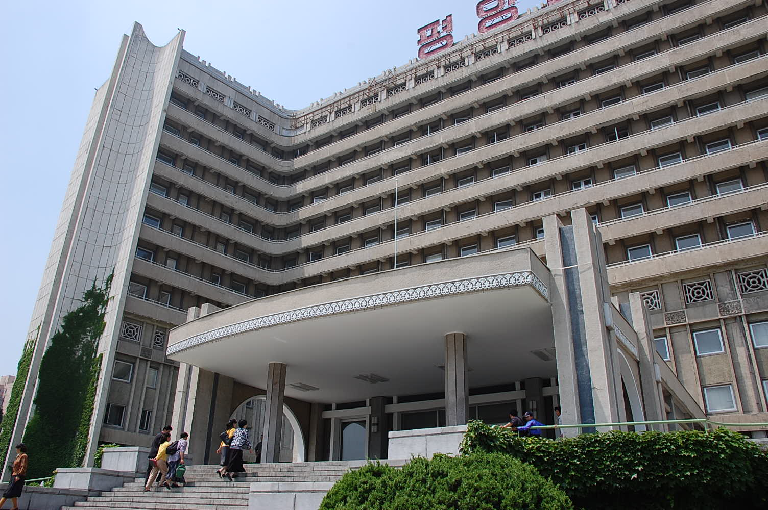 Trip to North Korea in June, 2008